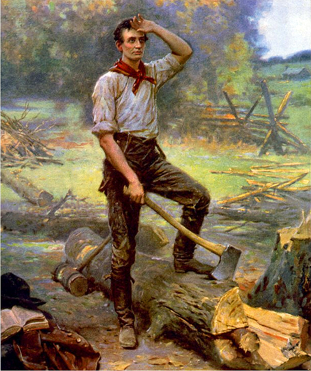 The Railsplitter. Abraham Lincoln here despicted as a young man chopping wood.